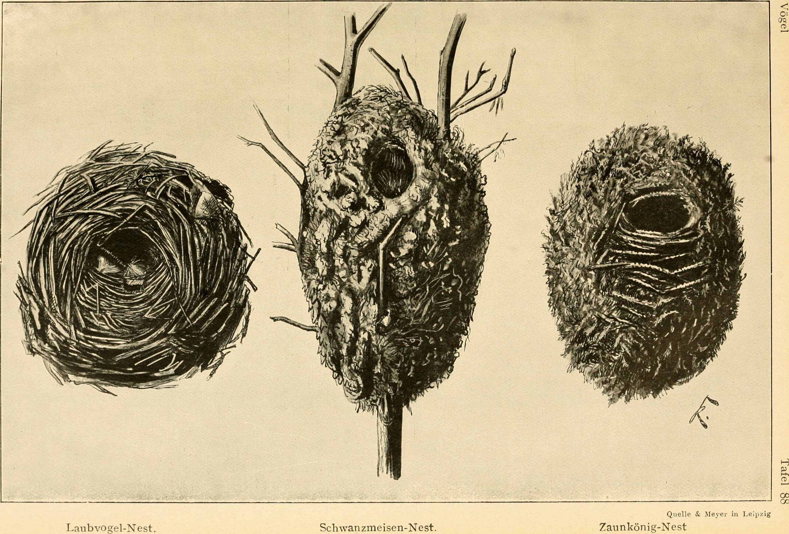 Title: Die Singvögel der Heimat Year: 1921 (1920s) Authors: Kleinschmidt, Otto, b. 1870 Subjects: Birds Publisher: Leipzig, Quelle & Meyer Text Appearing Before Image: Vögel Tafel Text Appearing After Image: '